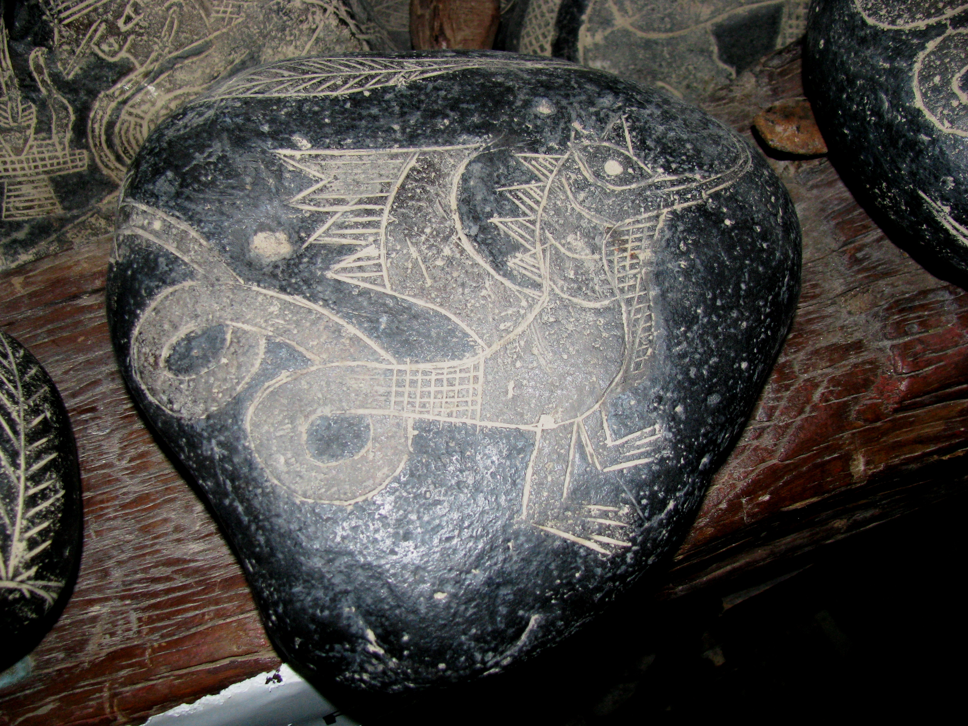 Ica stones